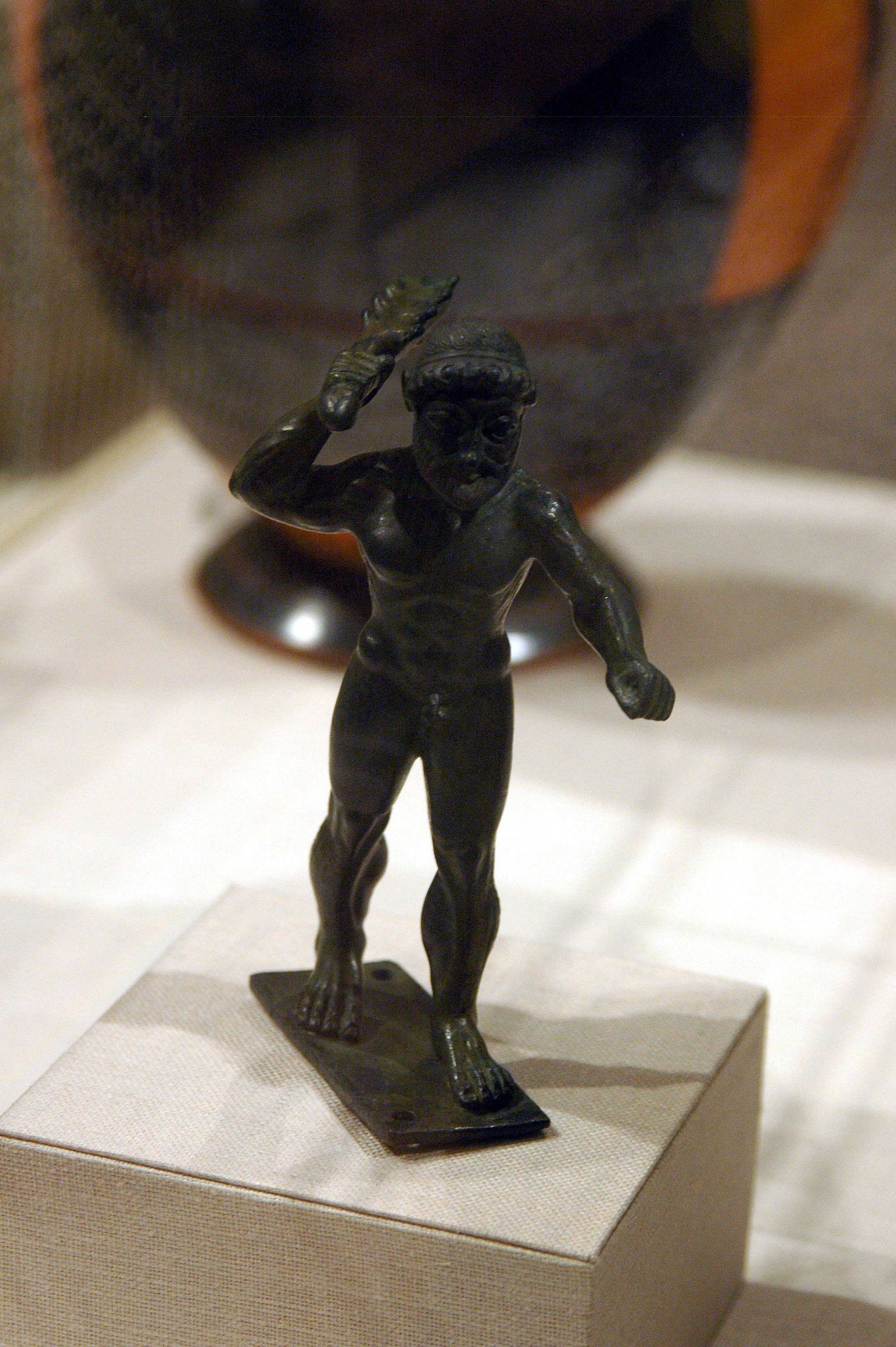 Bronze Herakles, last quarter of the 6th century B.C. Greek Bronze; H. 5 1/16 in. (12.80 cm) The Metropolitan Museum of Art, New York, Fletcher Fund, 1928 (28.77) View at the Metropolitan Museum of Art website Wikipedia Loves Art at the Metropolitan Museum of Art This photo of item # 28.77 at the Metropolitan Museum of Art was contributed under the team name "Futons_of_Rock" as part of the Wikipedia Loves Art project in February 2009. Metropolitan Museum of Art The original photograph on Flickr was taken by AlkaliSoaps—please add a comment to the original Flickr page whenever a use has been made on Wikipedia or another project. Project galleries on Flickr: this institution, this team